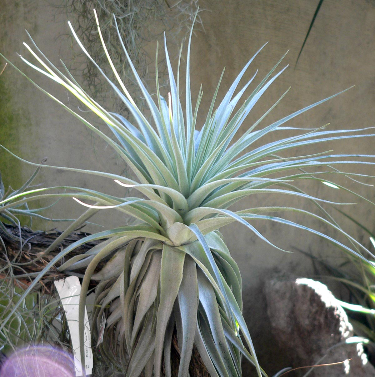 Photo of Tillandsia gardneri var. gardneri at Balboa Park